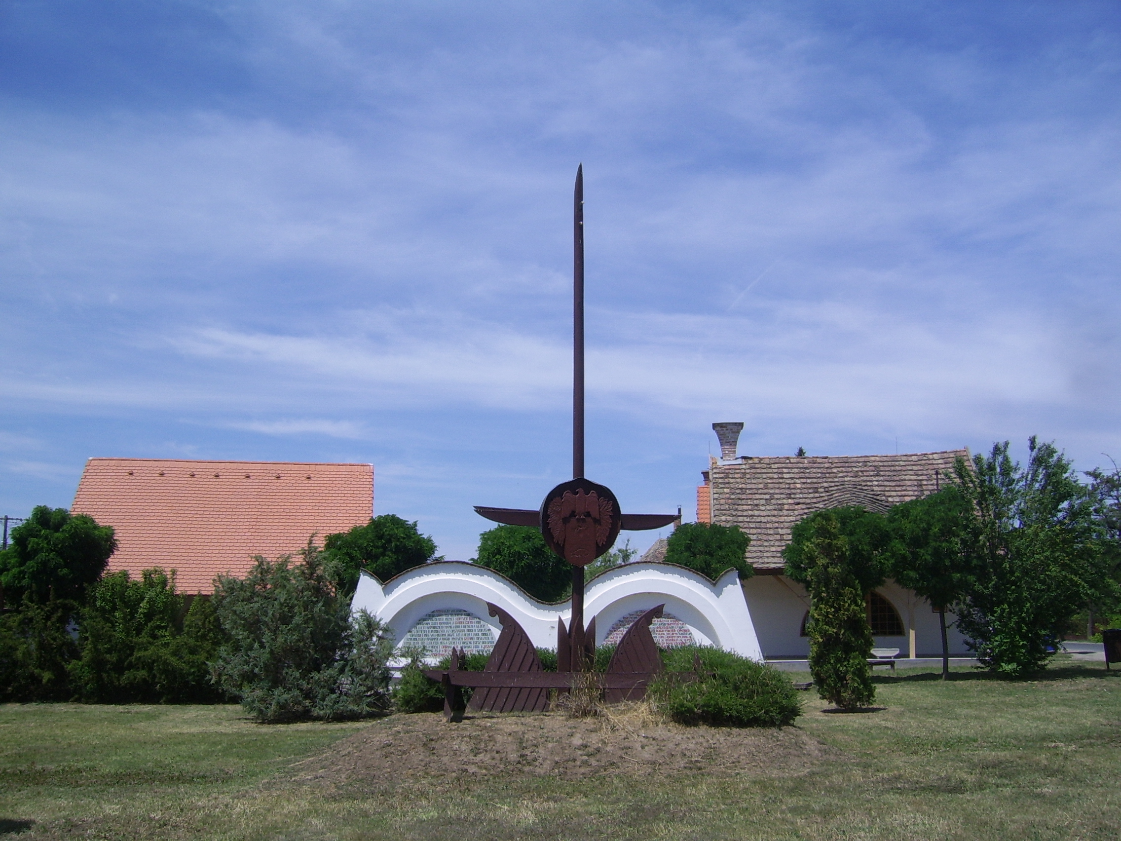 Village park, Mártély, Hungary